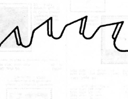 Circular saw blades